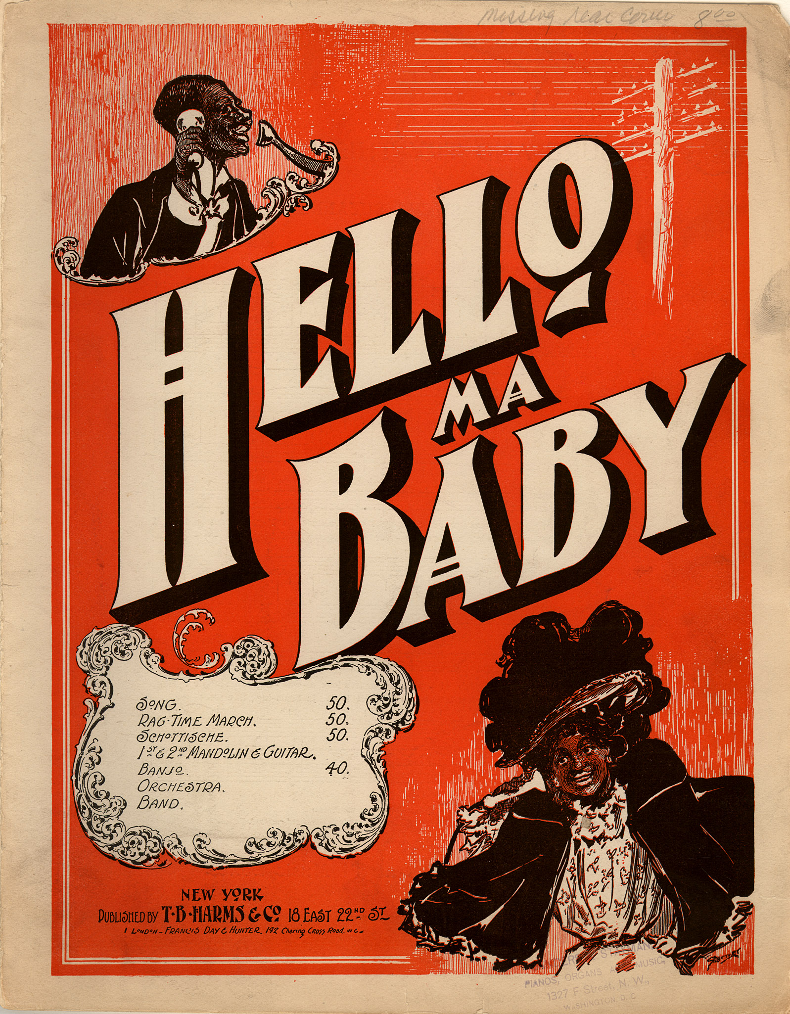 "Hello My Baby! Joseph E. Howard (lyrics by Ida Emerson). New York, NY: T.B. Harms, 1899 sheet music cover.